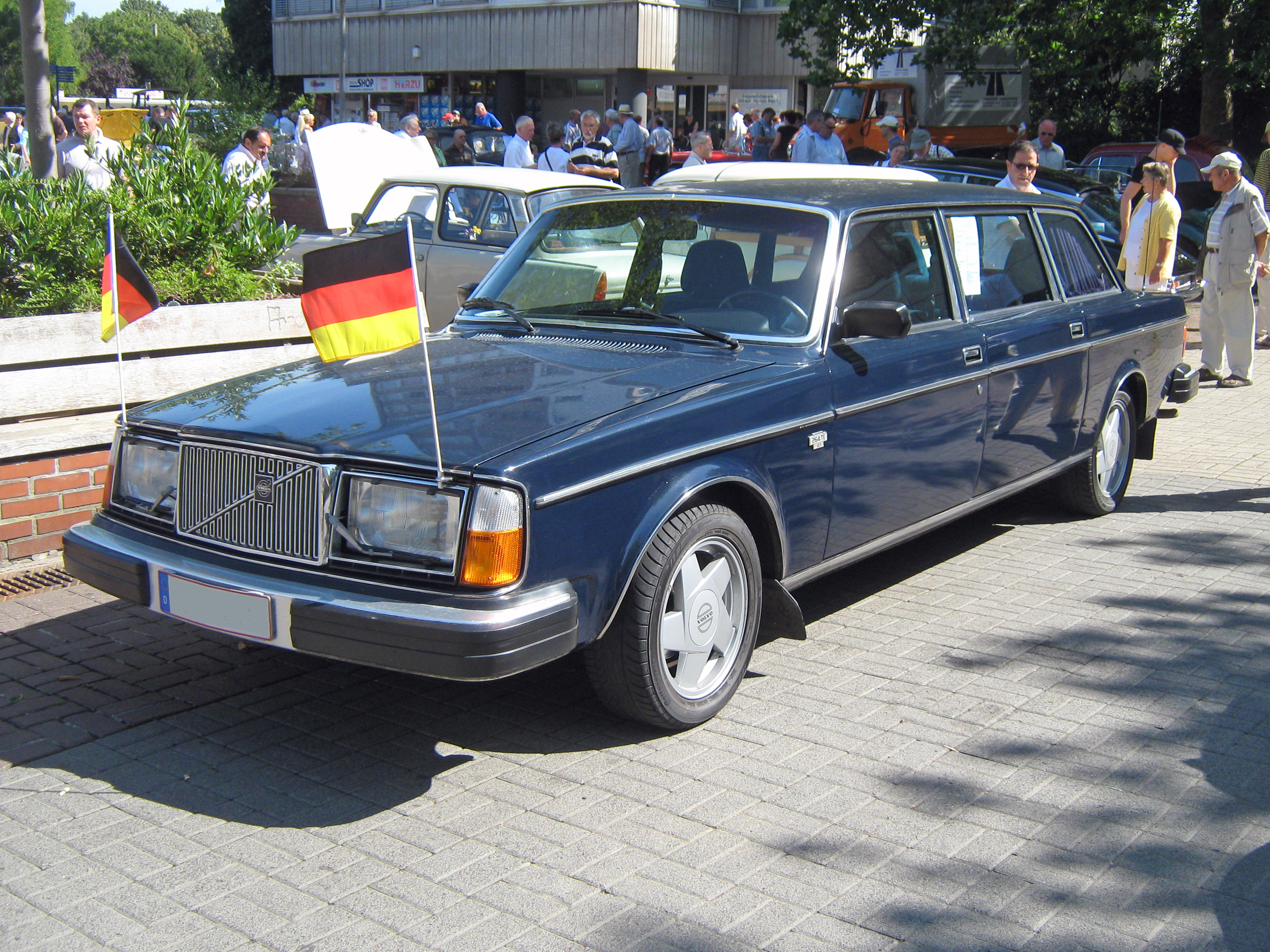 1980 Volvo 264 TE Front.